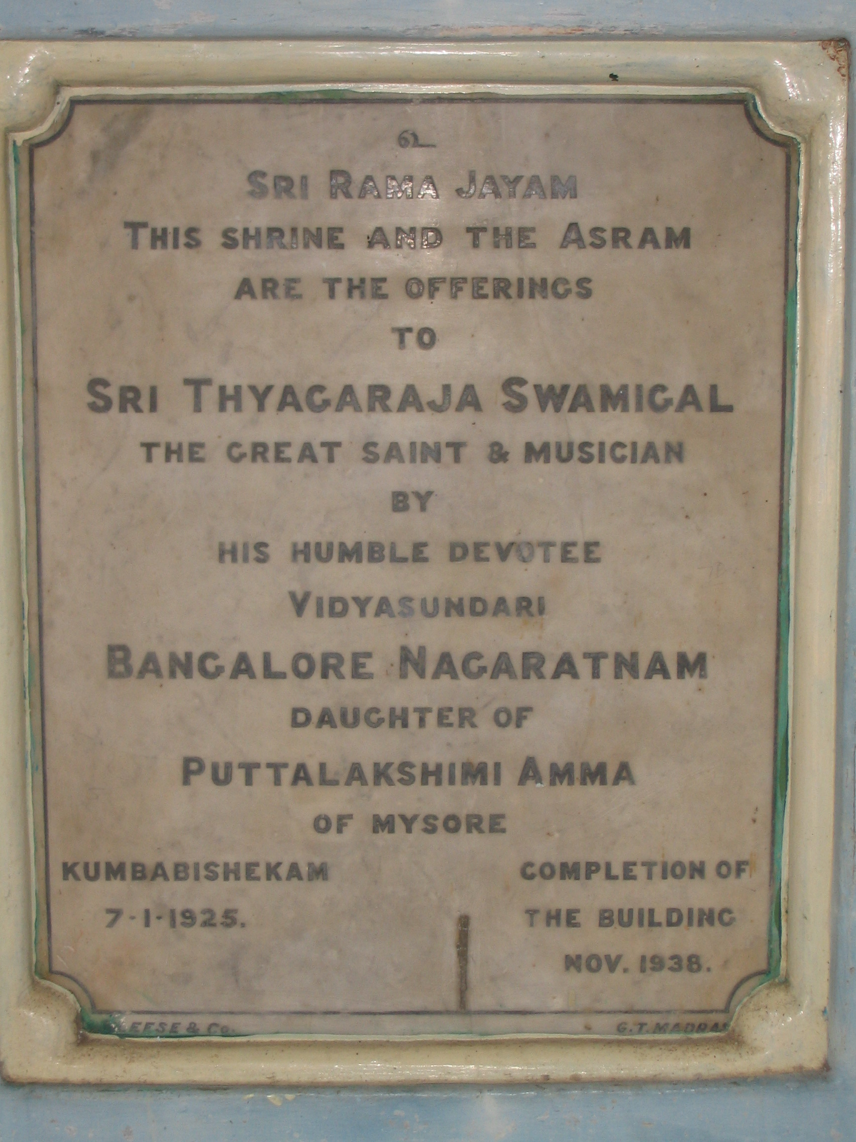 Granite plate outside of Sri Tyagaraja Swamy samadhi mandir in Tiruvaiyaru